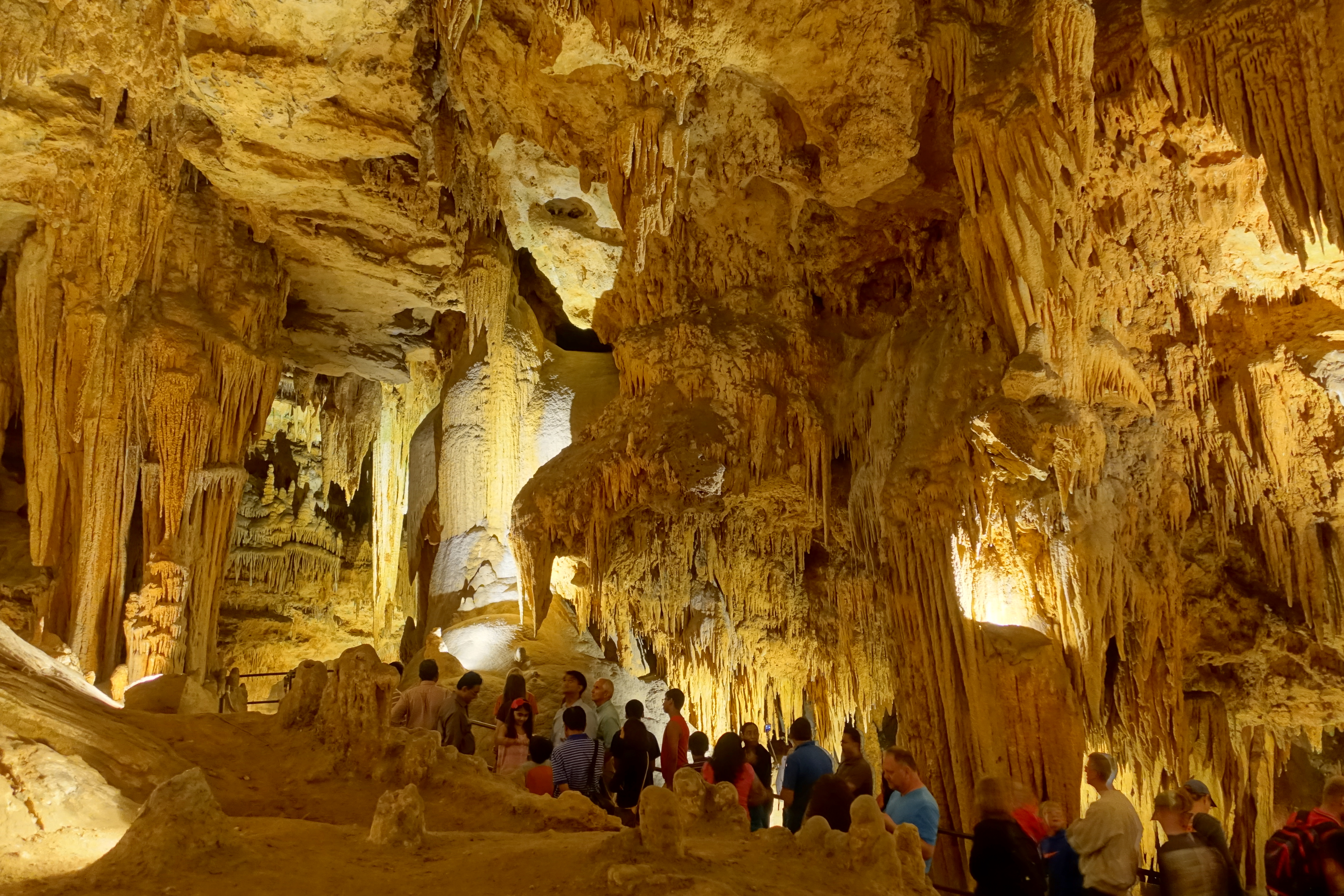 Luray Caverns - Luray, Virginia, USA.